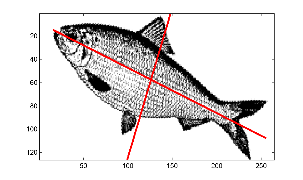 Principle Component Analysis on an image of a fish.